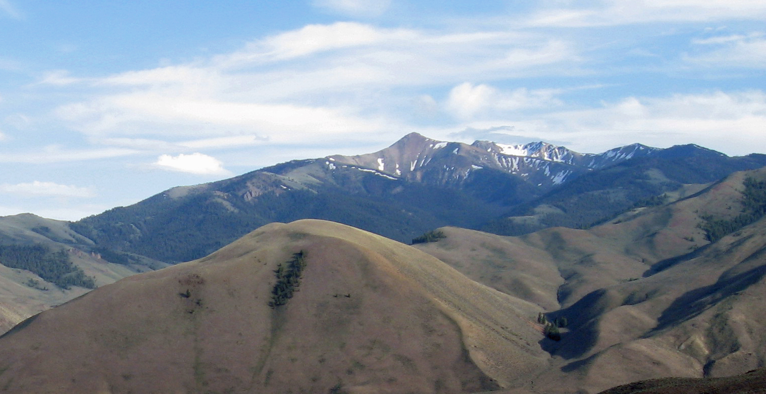 A closeup of Sheep Mountain in the Jim McClure–Jerry Peak Wilderness. Photo taken from near Jimmy Smith Lake outside the wilderness area. Photo is a derivative of Sheep Mountain Idaho 1.